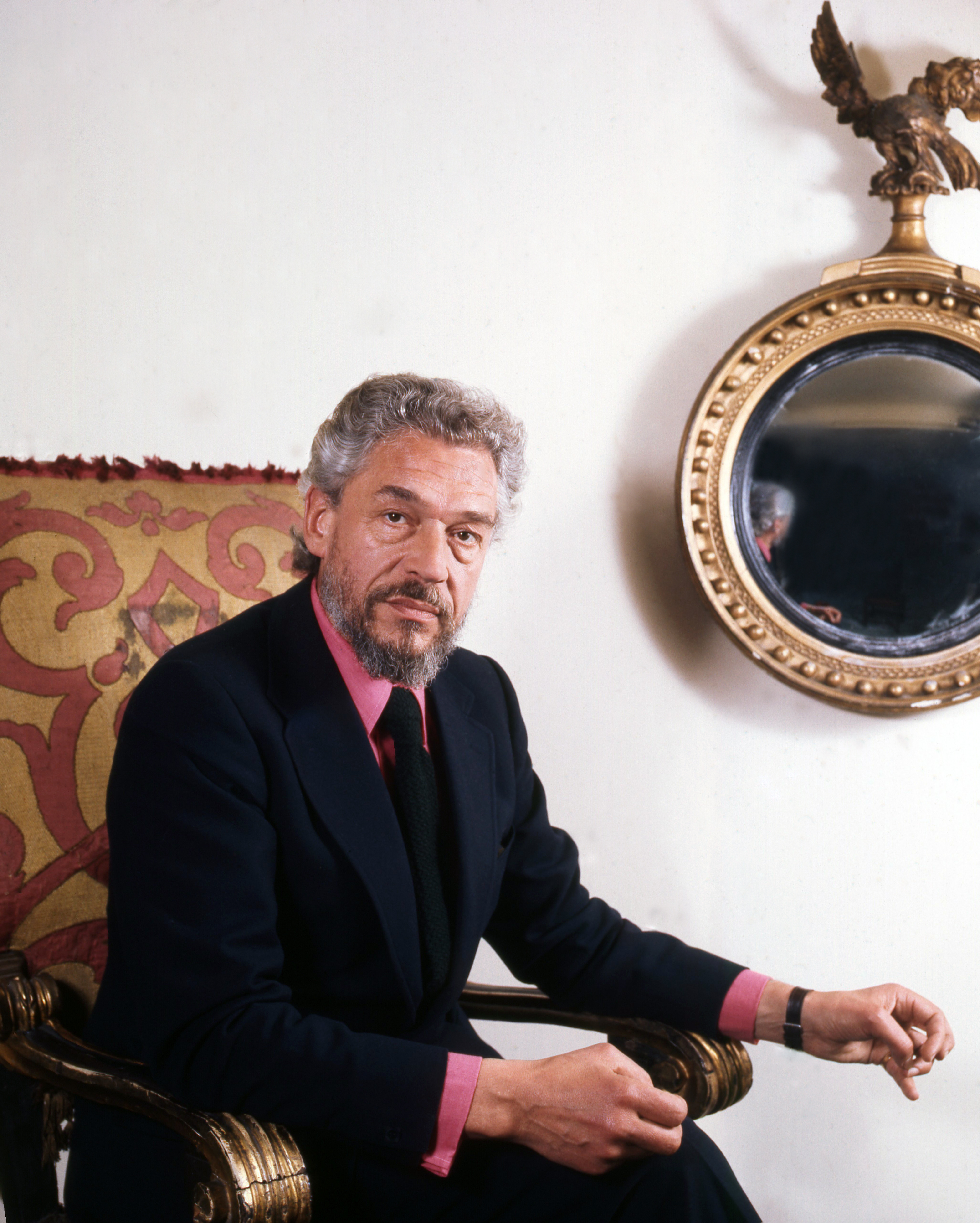 Paul Scofield taken in photographer's studio